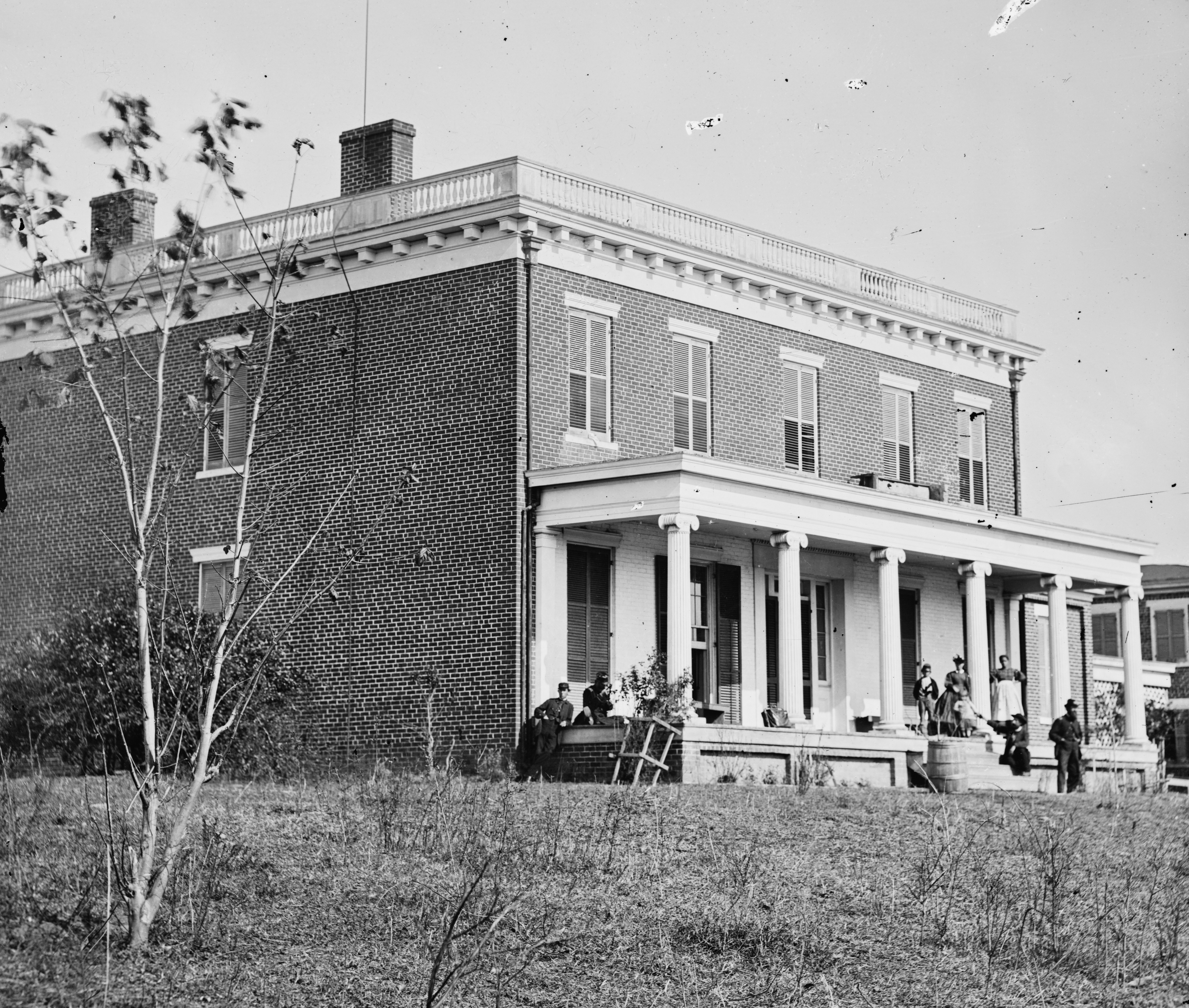 Title: Varina landing, Virginia (vicinity). Aiken house on James River Physical description: 1 negative (2 plates)